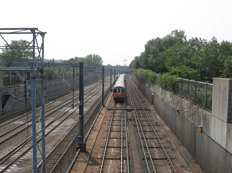 Looking southwest down onto the Southwest Corridor from McBride Street in Jamaica Plain. To the left of the inbound Orange Line train is the Forest Hills commuter rail platform; the clock tower is visible in the background.